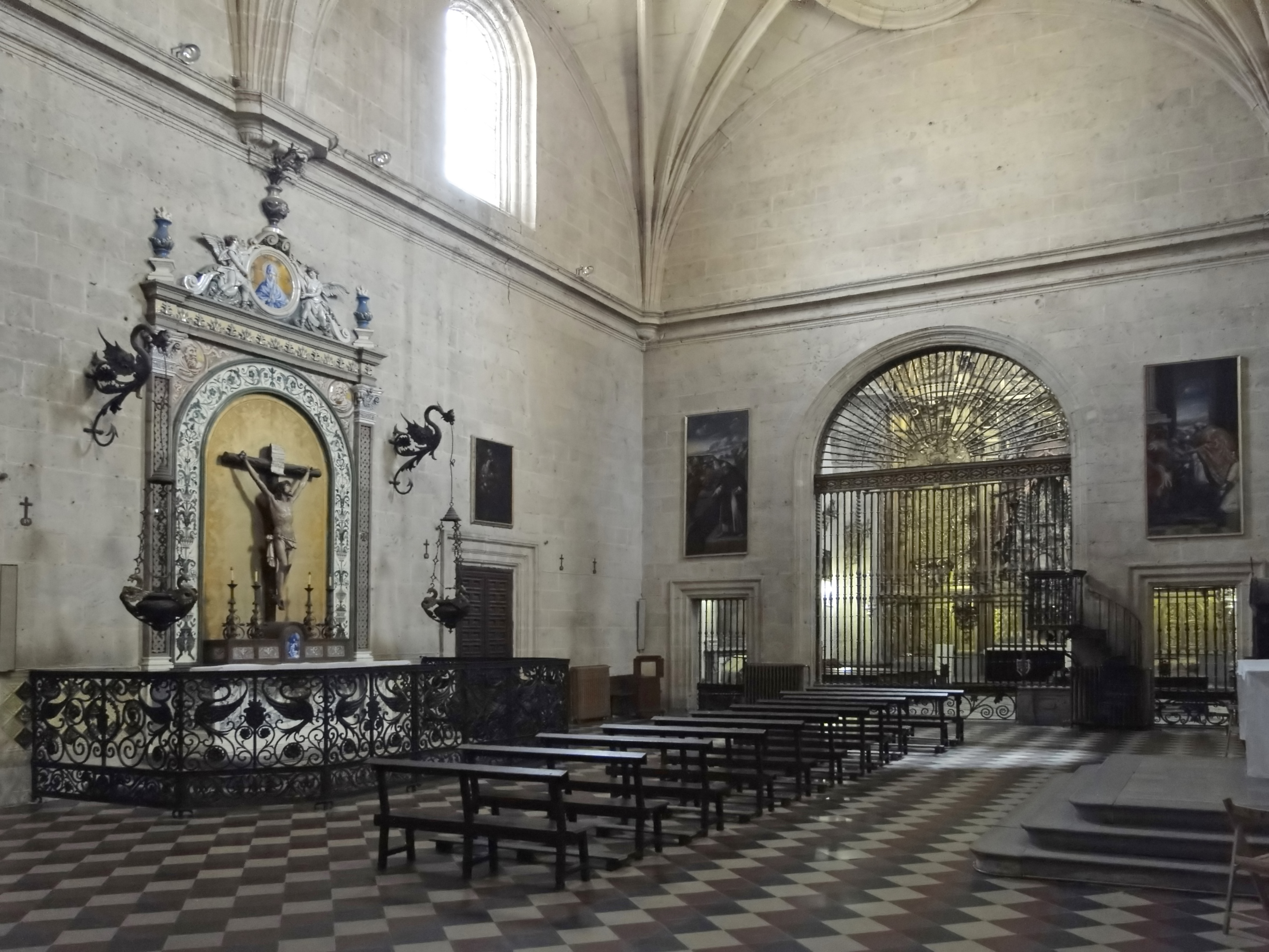 Chapel inside the Cathedral of Segovia, Spain